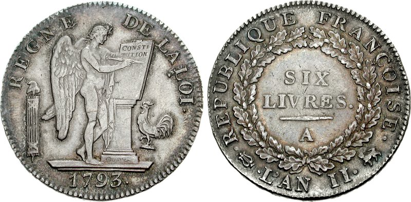 France, Premier République. Convention nationale. 1792-1795. AR Écu de six livres (29.30 g, 6h). Paris mint; Augustin Dupré, engraver general. Dated 1793. Winged genius of France inscribing on tablet set on column; fasces to left; to right, rooster standing left SIX/LIVRES within oak wreath. VG 58; Davenport 1336; KM 624.1. Good VF, toned. Augustin Dupré (1748–1833) Alternative names Augustin DupreDescriptionFrench engraverDate of birth/death 6 October 1748 30 January 1833Location of birth/death Saint-Étienne Armentières-en-BrieAuthority control : Q767735 VIAF: 24775347 ISNI: 0000 0000 6653 9499 ULAN: 500014612 LCCN: no90013751 GND: 122203194 WorldCat creator QS:P170,Q767735